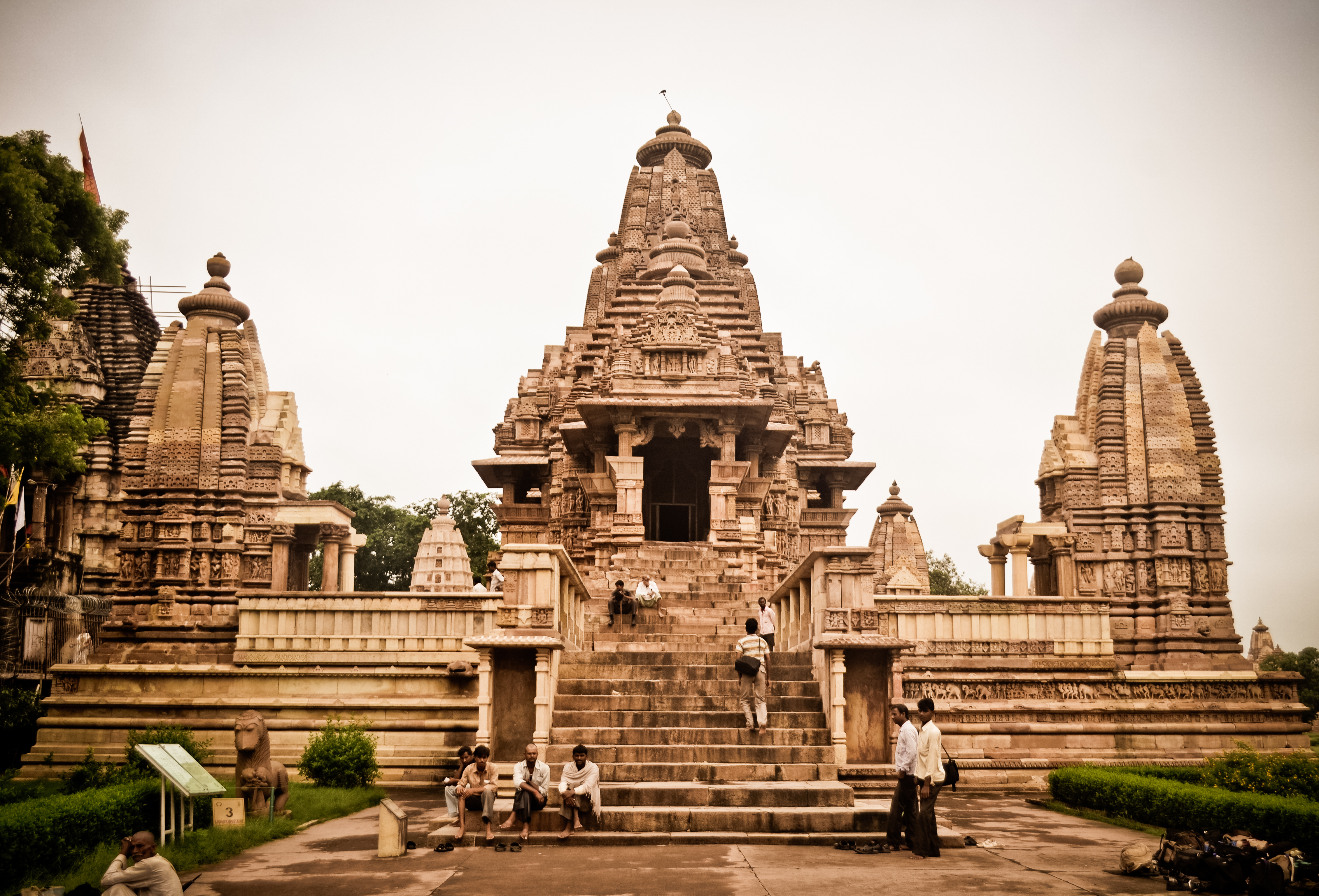 Lakshman temple